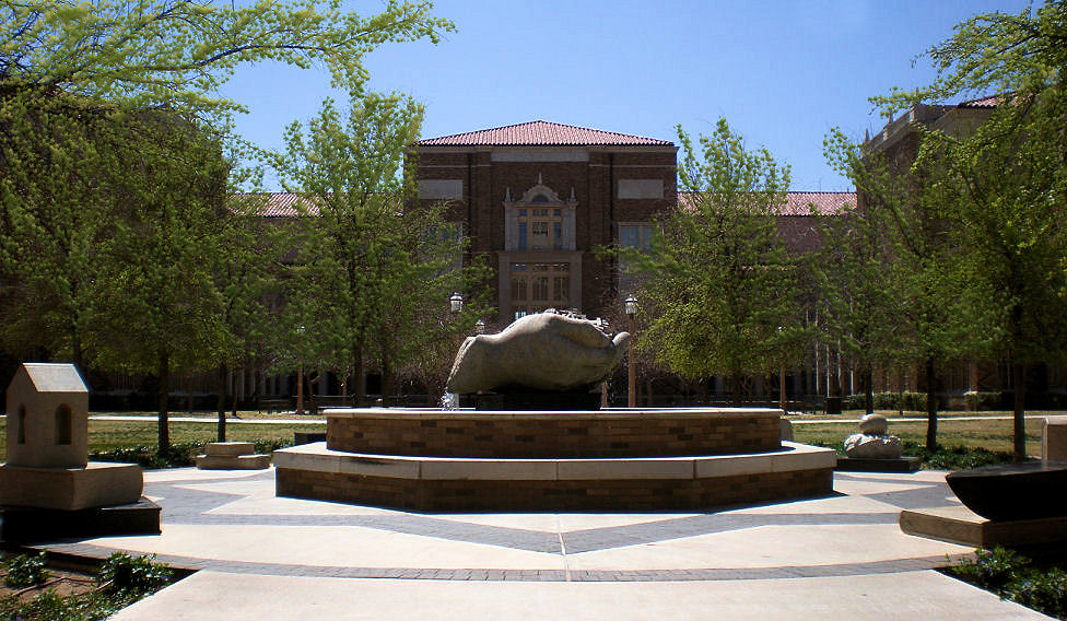 College of Education at Texas Tech University in Lubbock, Texas, U.S.